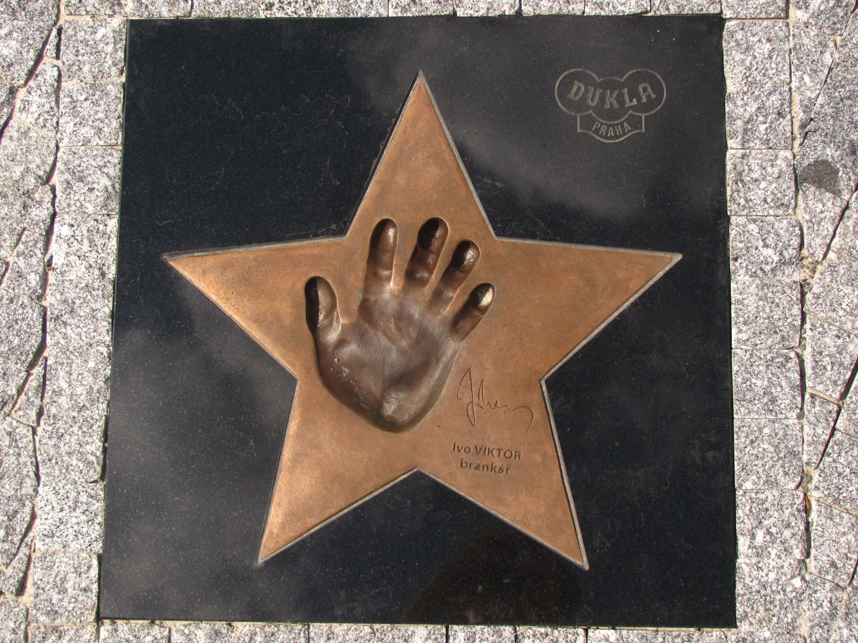 Ivo Viktor, Czech football goalkeeper – Walk of Fame star in Juliska Park near football stadium of Dukla Praha in Prague 6 - Dejvice.